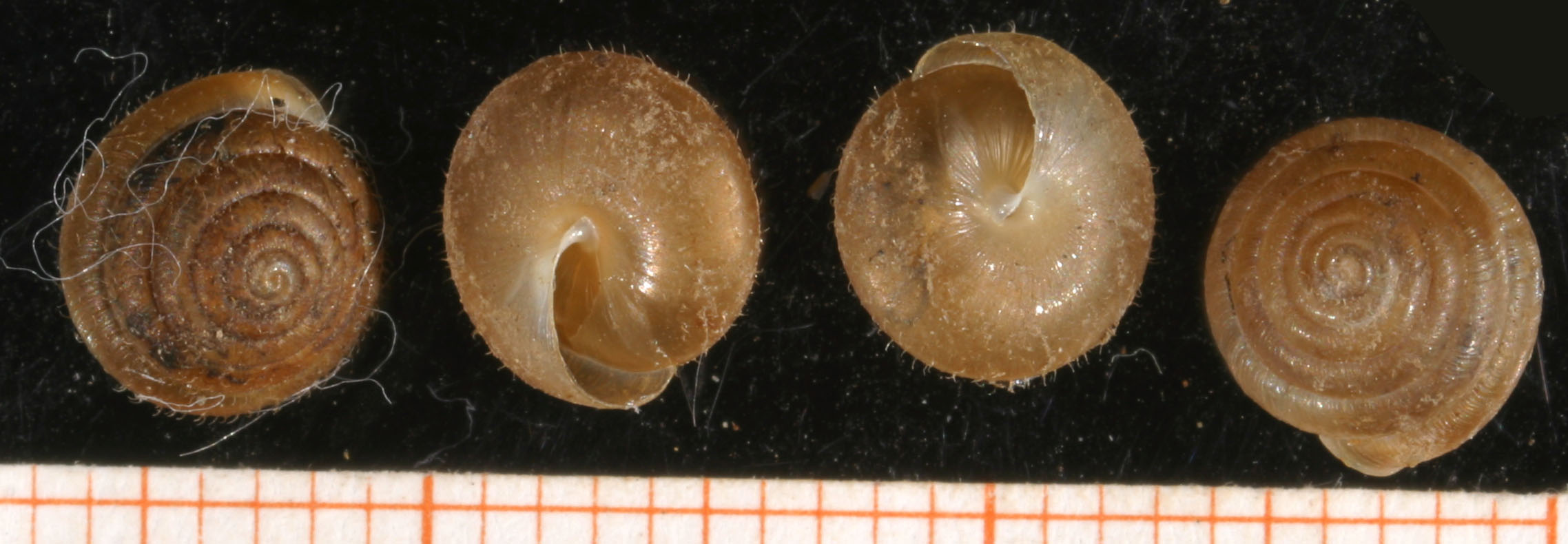 Trochulus edentulus (Draparnaud, 1805), Hygromiidae, Pulmonata, Gastropoda, Germany, southern Baden-Württemberg, Eichberg near Blumberg (Schwarzwald-Baar-Kreis)